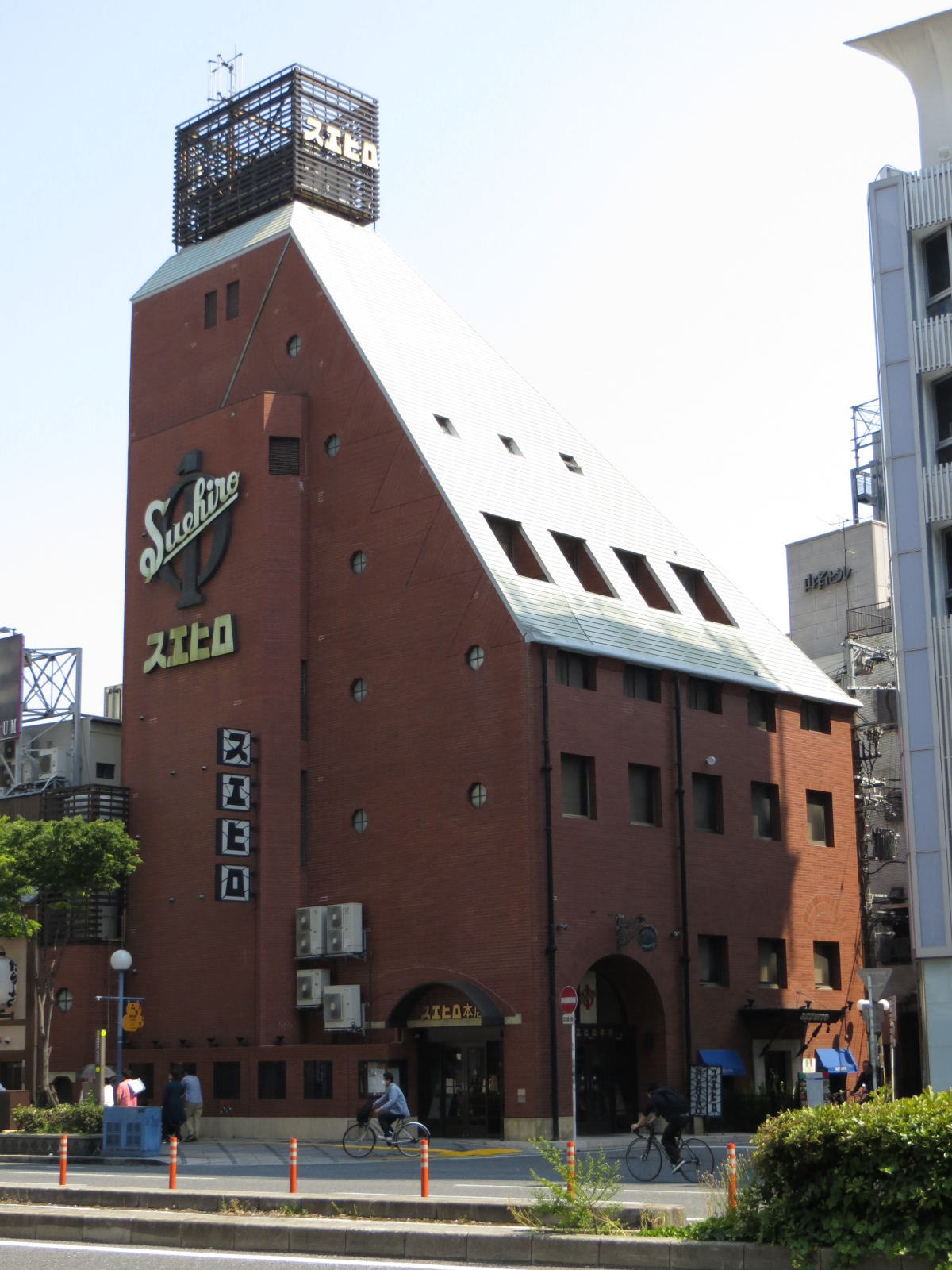 "Suehiro" (Steak and Shabu-Shabu restaurant), Kita-ku, Osaka.